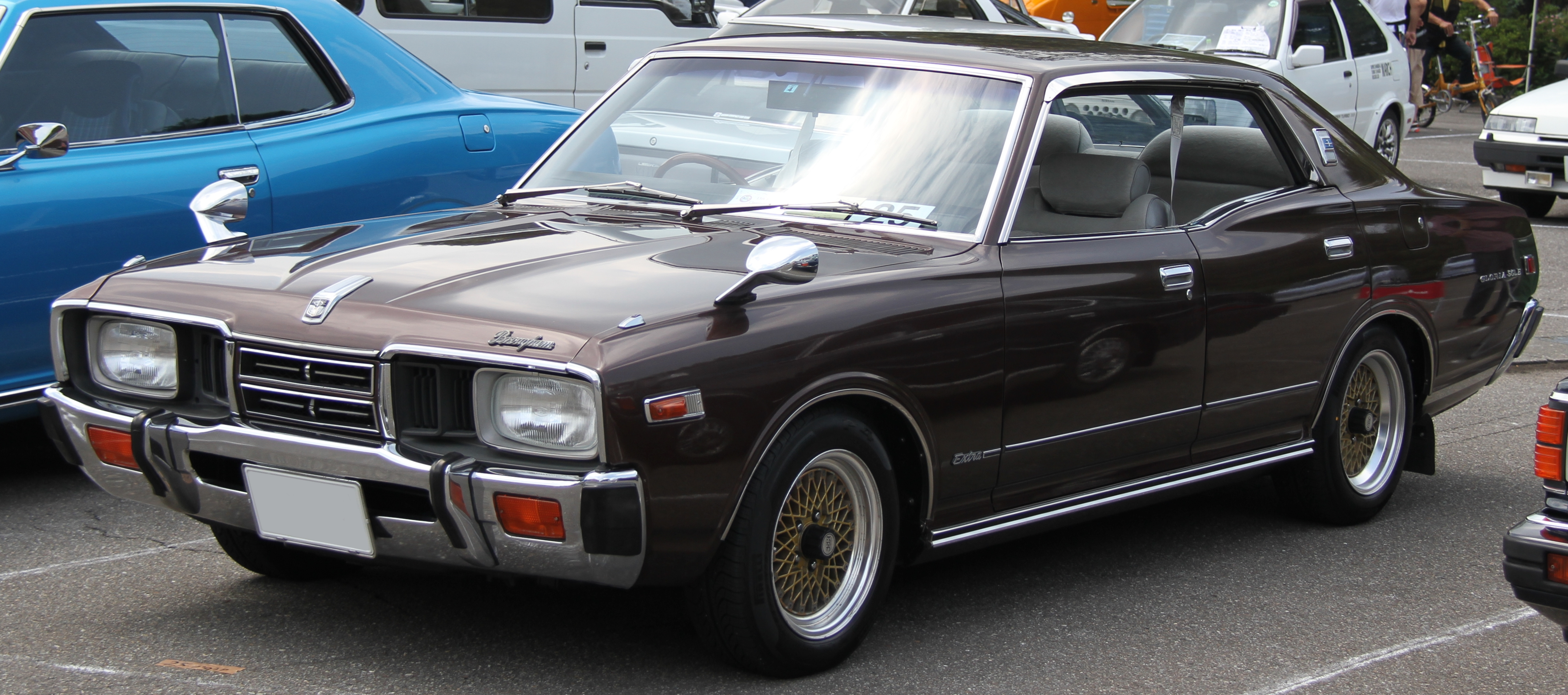 Nissan Gloria